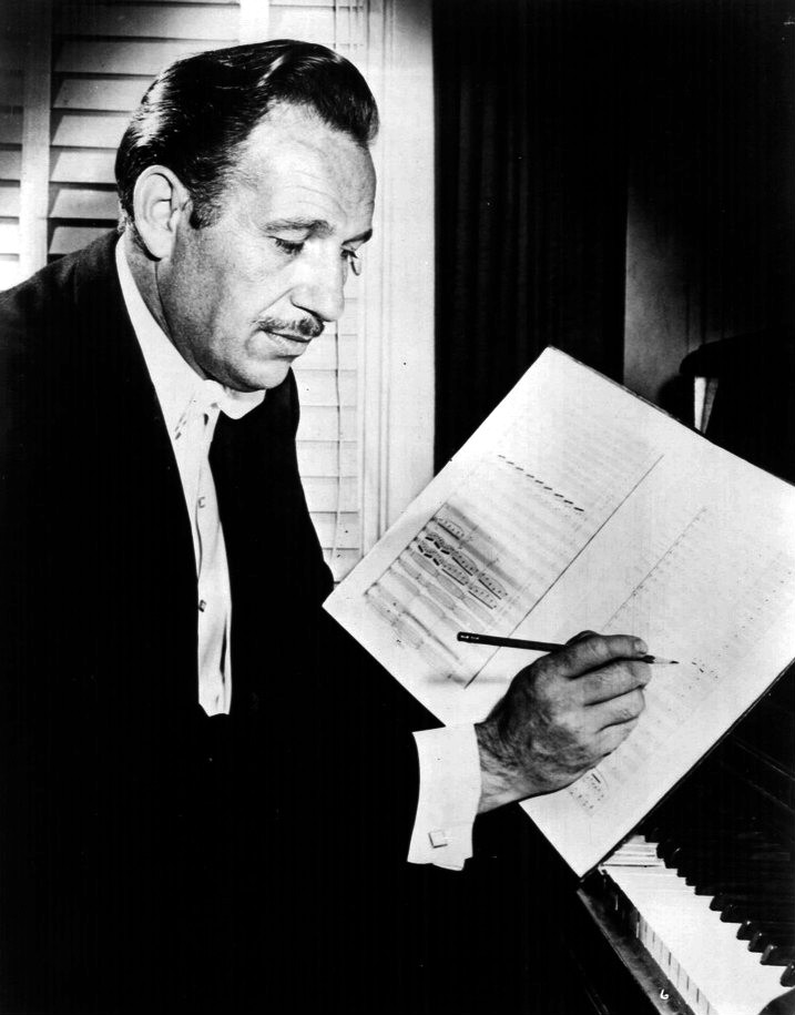 Photo of conductor Roger Wagner who headed the Roger Wagner Chorale.